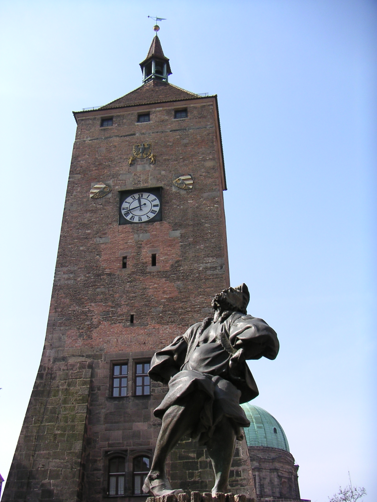 A tower called "Weißer Turm" (White Tower) in Nuernberg, Germany. The statue in the front is part of a fountain.